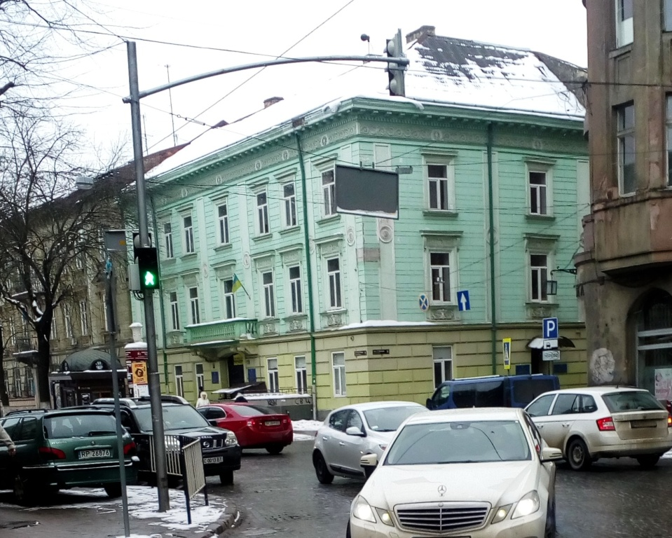 Prince Roman street in Lviv